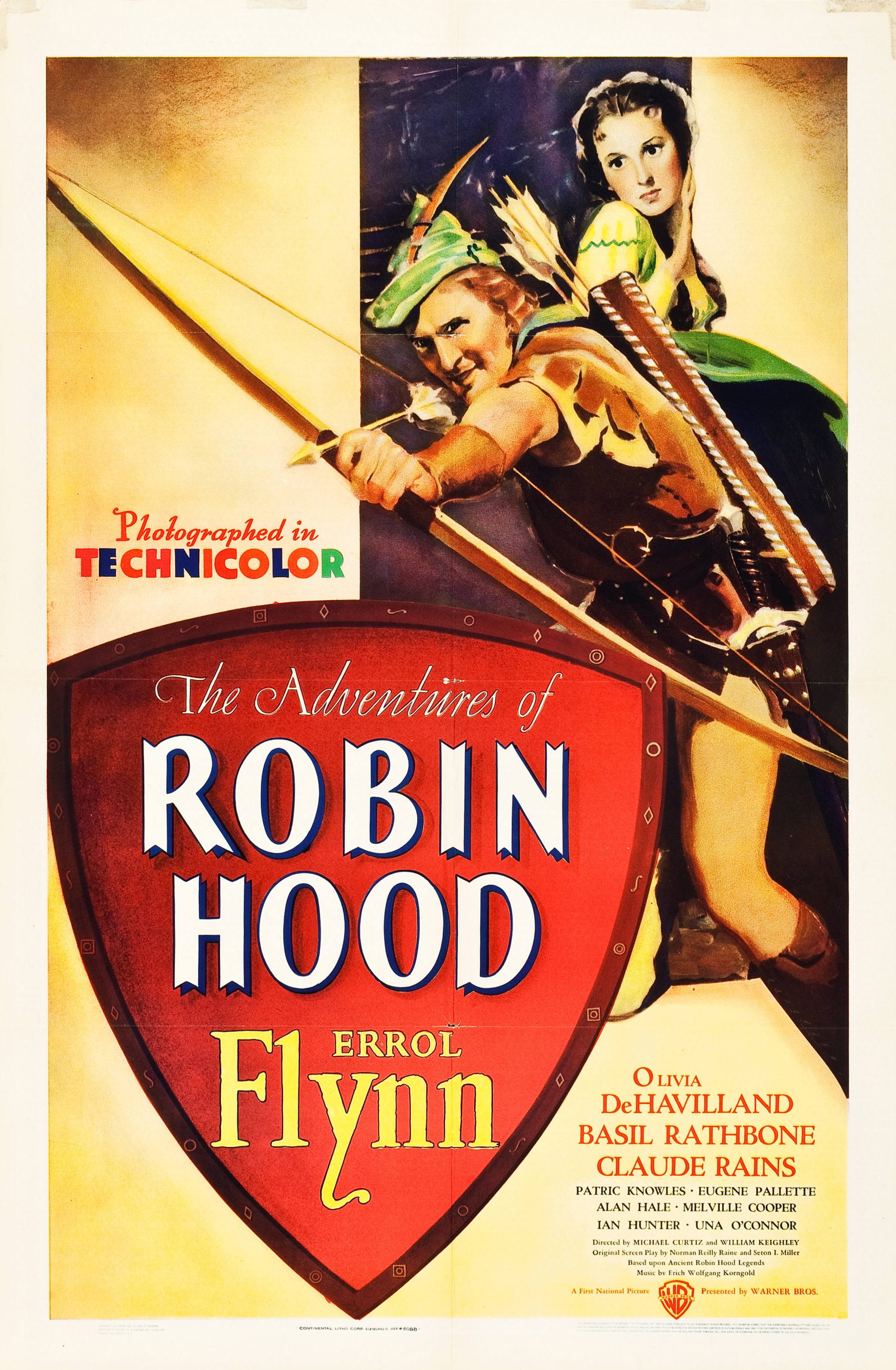 Poster for the original theatrical run of the 1938 American film The Adventures of Robin Hood.